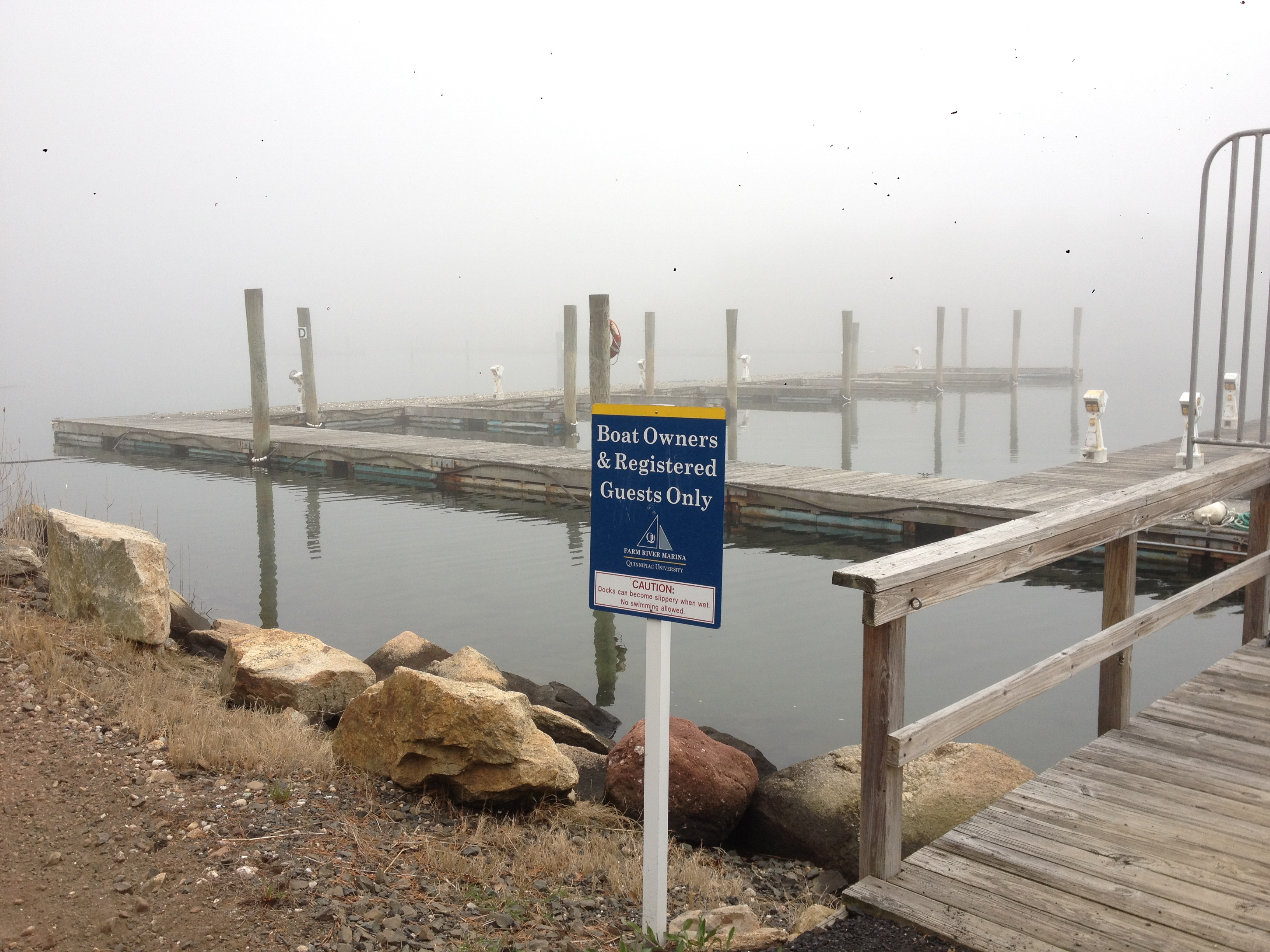 Quinnipiac University Boat Docks at Connecticut's Farm River State Park in East Haven.